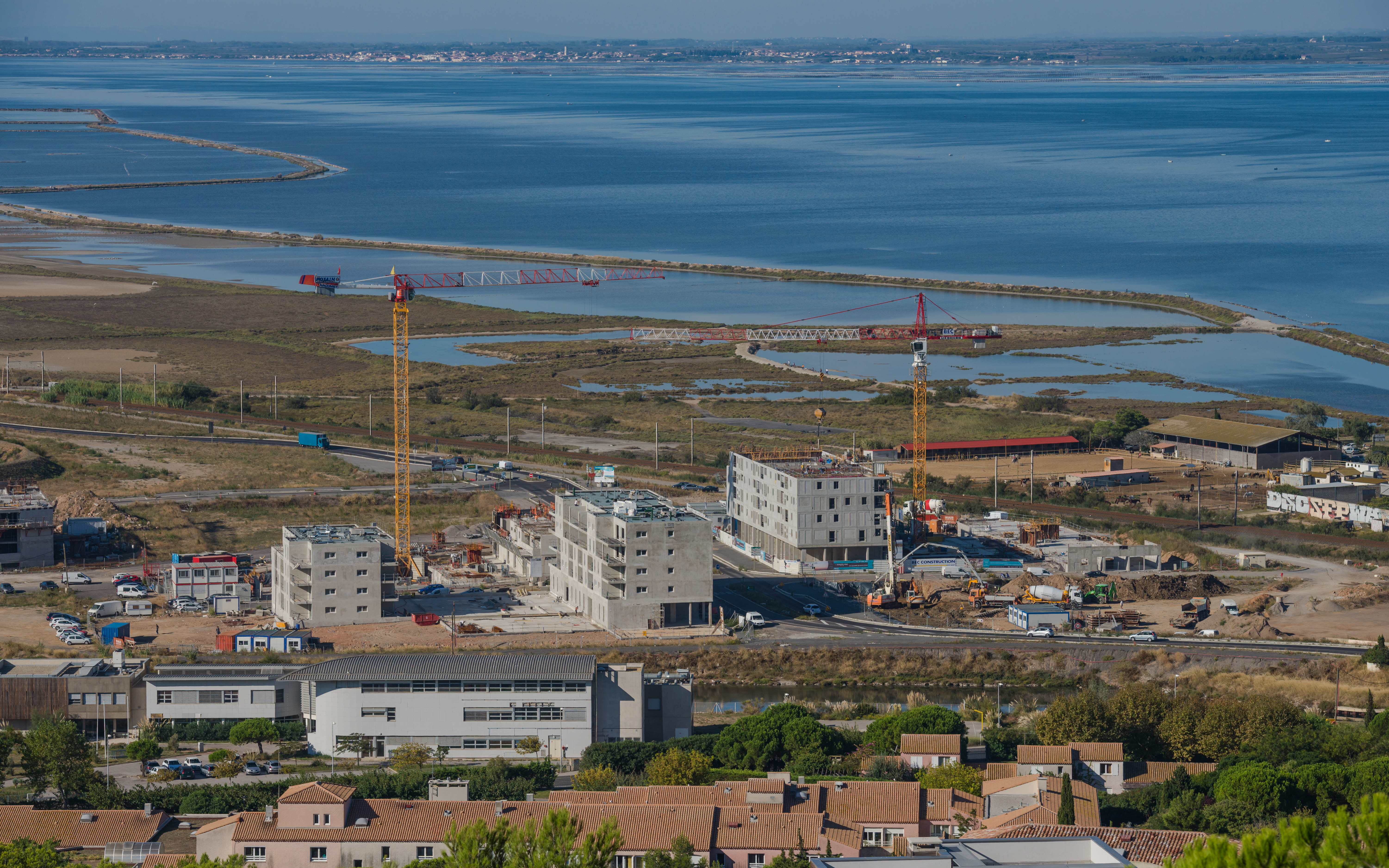 Constructions in progress near the Étang de Thau. On the left a crane model Potain MDT 178 from Manitowoc Cranes (The Manitowoc Company) and on the right a Liebherr top-slewing Crane of the EC-H Litronic series. Sète, Hérault, France.